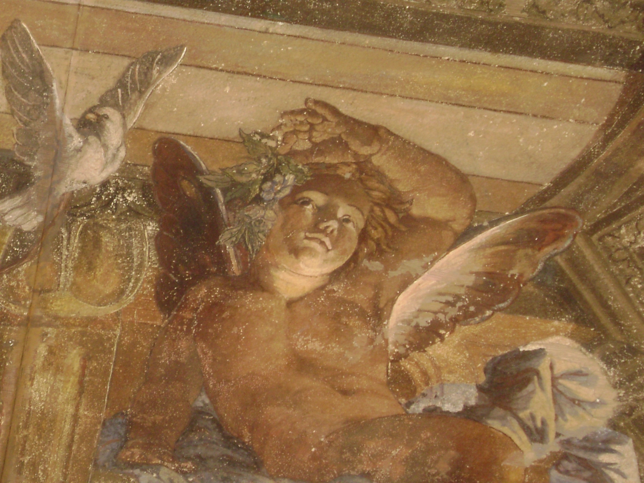 Decoration of Vizcaya´s garden (detail of an angel).